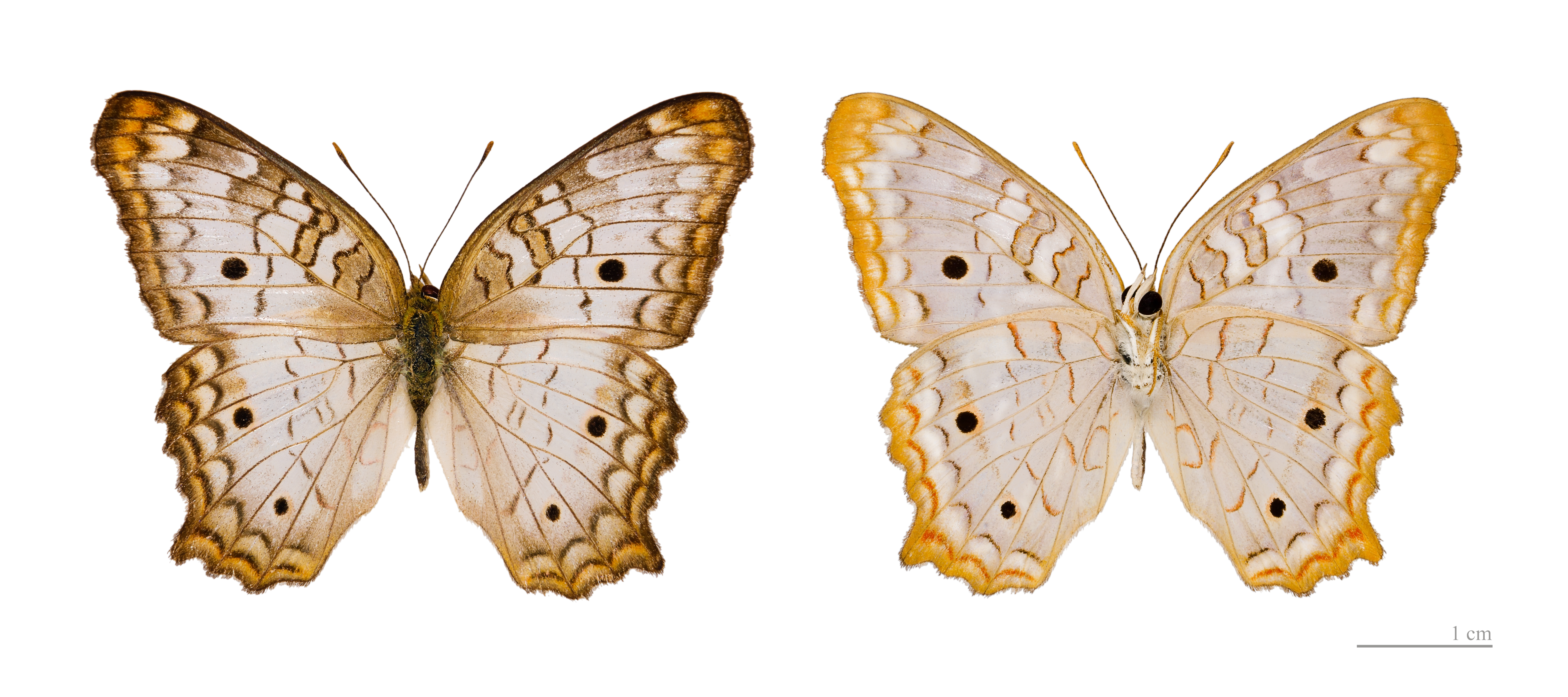 White Peacock ♂ - Two views of same specimen Locality : Cacao, Crique Baguot, French Guiana.